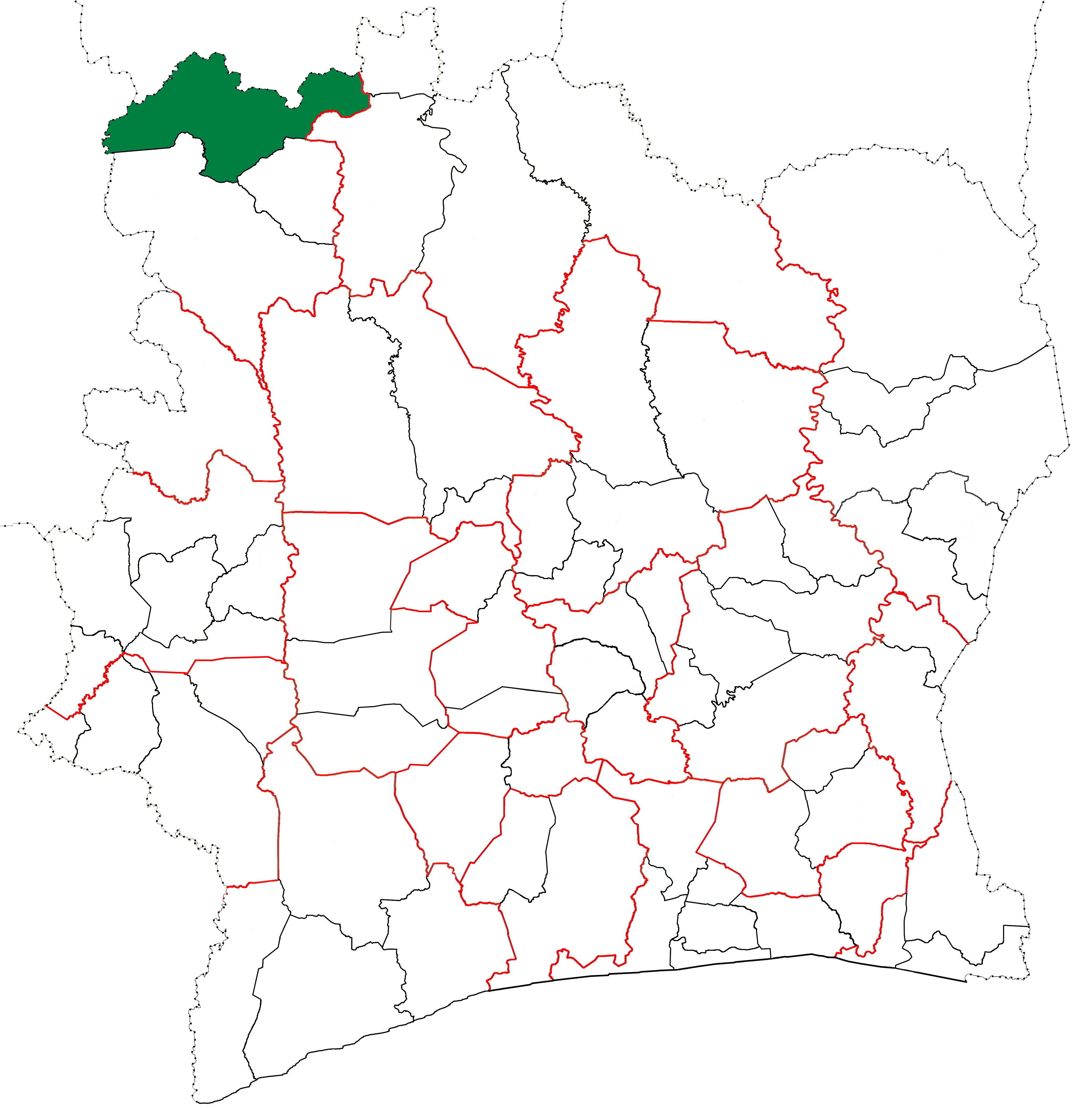 Locator map for Minignan Department in Côte d'Ivoire when it was created in 2005. Minignan Department kept these boundaries until 2011, but other boundary changes to subdivisions of Côte d'Ivoire began to be made in 2008.